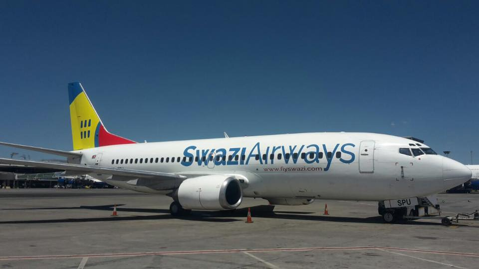 Leased from Star Air Cargo.